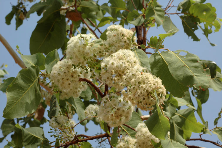 Flowers of Corymbia foelscheana in Kakadu National Park, between Jabiru and Yellow Waters, Northern Territory